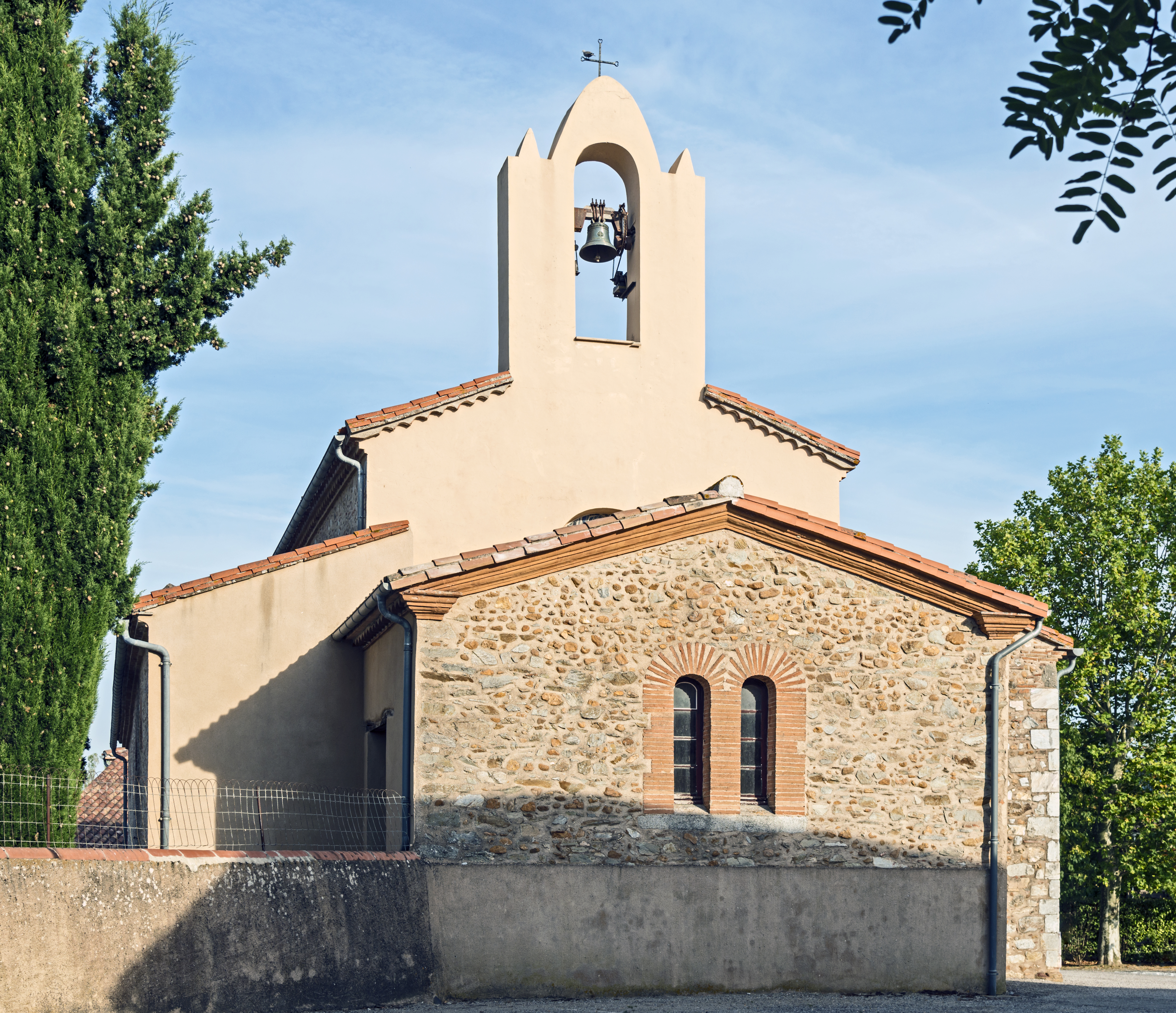 Belleserre, France. Church Saint-Pierre-ès-Liens with bell gables.